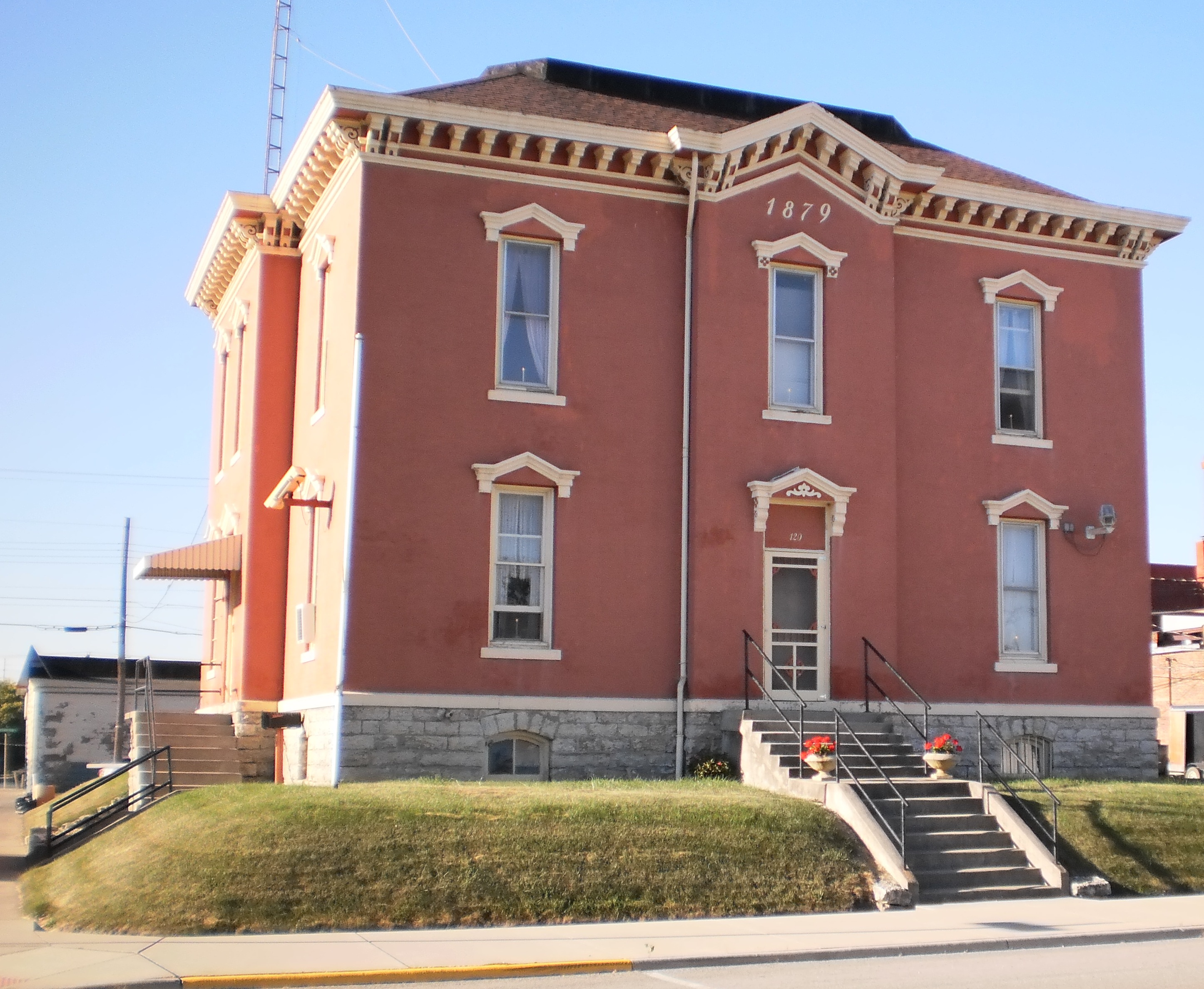 This jail building is part of the Hartford City Courthouse Square Historic District in Hartford City, Indiana, USA. It is the oldest building in the district, and it was built in 1879.